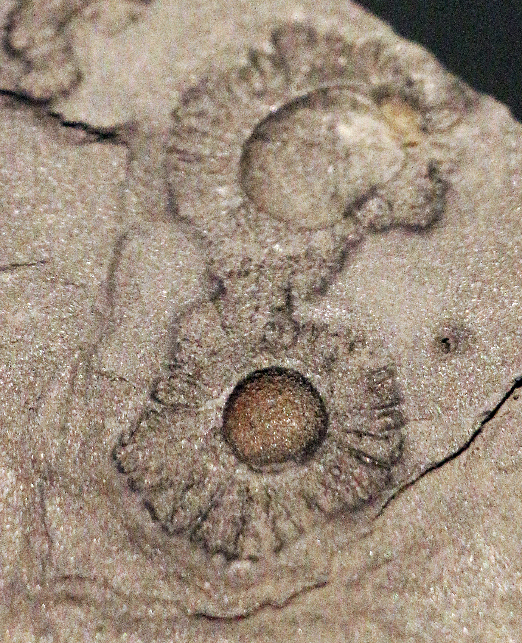 oldest multicellular life